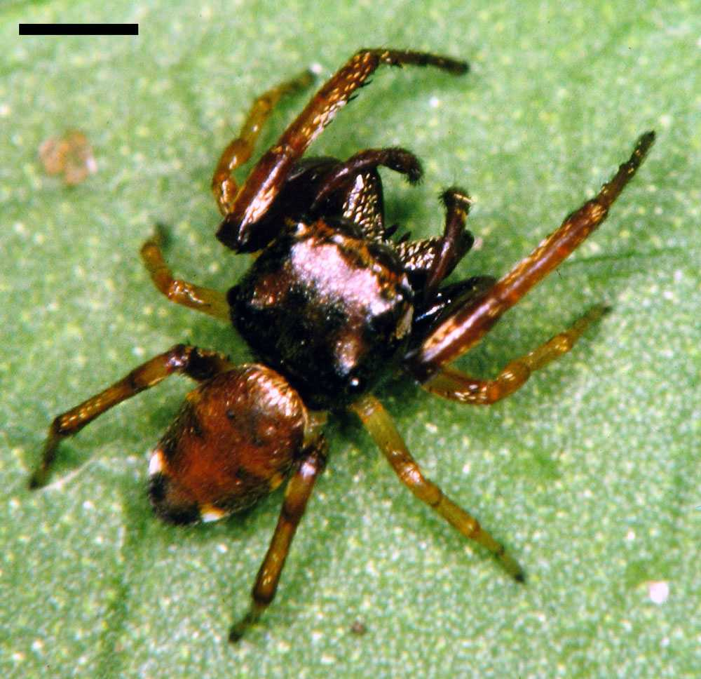 Male Zygoballus rufipes jumping spider from Gainesville, Alachua County, Florida, USA